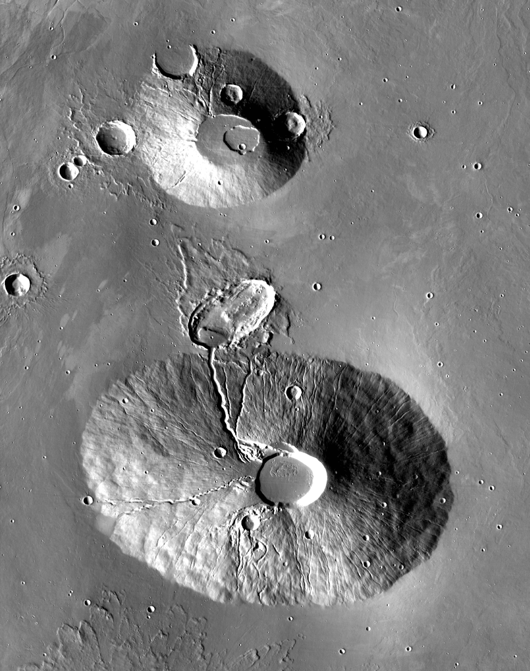 THEMIS daytime infrared image mosaic showing the volcanoes Ceraunius Tholus (bottom) and Uranius Tholus (top) in the northeast part of the Tharsis region of Mars.